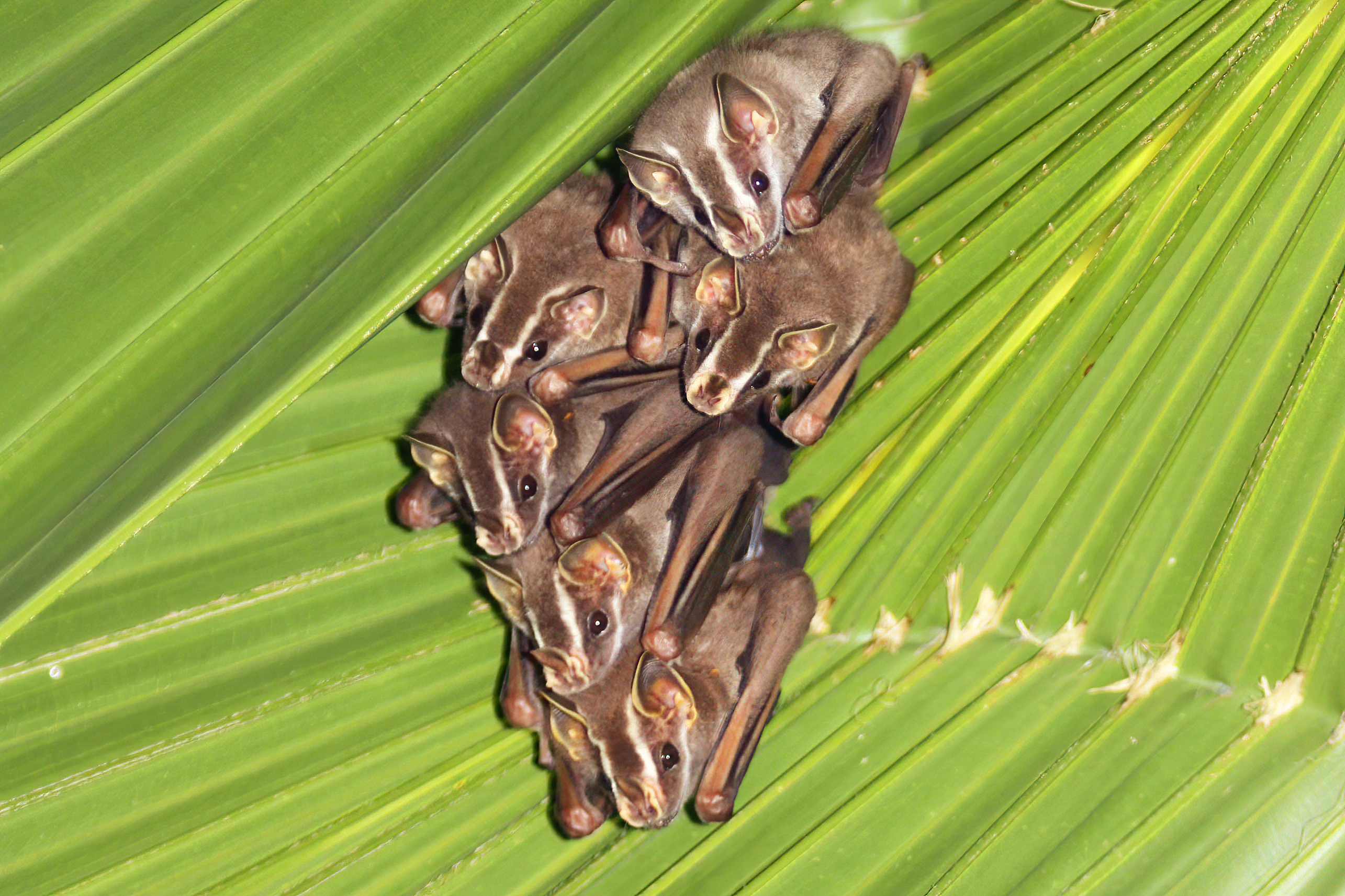 Common tent-making bats (Uroderma bilobatum) in the gardens of the Arenal Nayara Hotel, Costa Rica